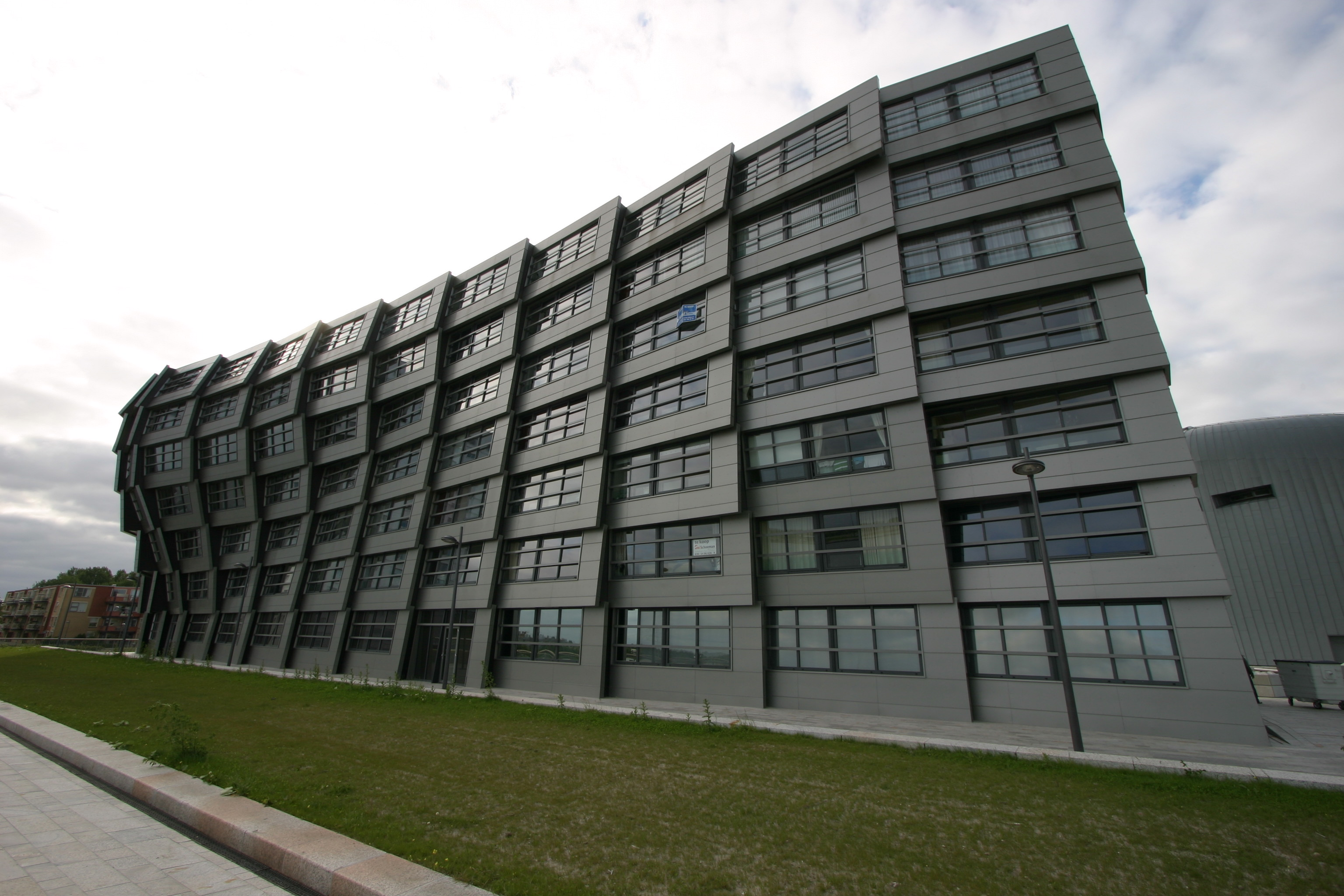 A building in Almere, the Netherlands.